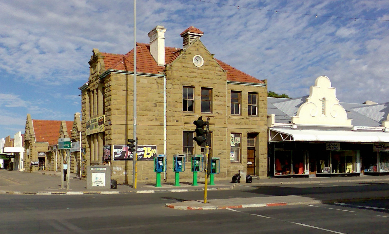 Sandstone building (old post Office building which is now privately owned) – Aliwal North, South Africa